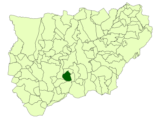 Situation of the municipality of Torres (Jaén, Spain).